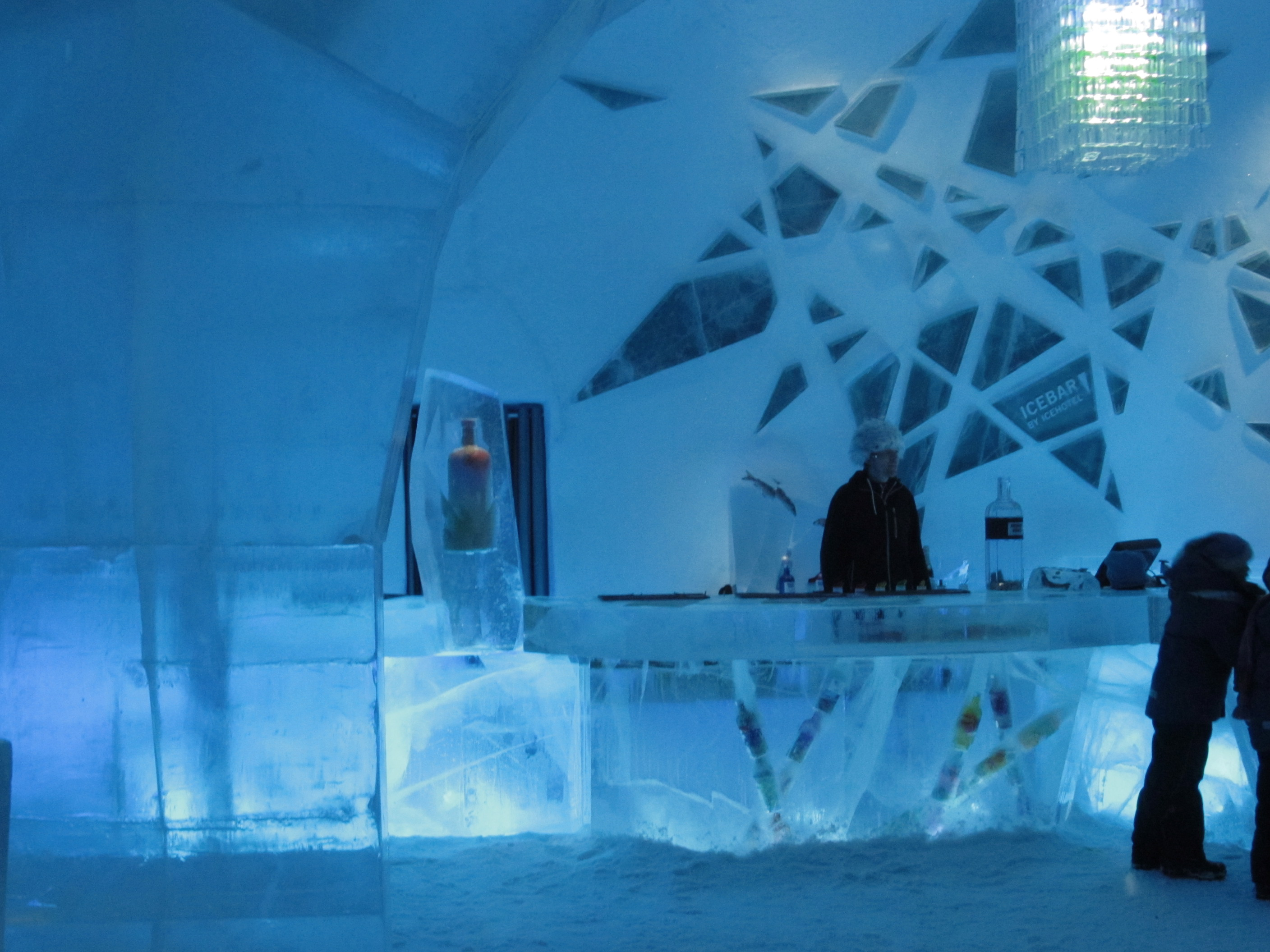 2012-13 Absolut Icebar, Icehotel in Jukkasjärvi, Kiruna municipality, Sweden.